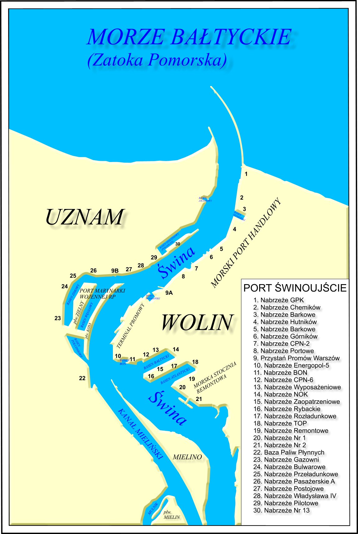 A plan of the port of Świnoujście